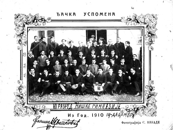 Gymnasium in Niš, class of the 1910s Srpski (latinica): Niška gimnazija-klasa đaka iz 1910. godine